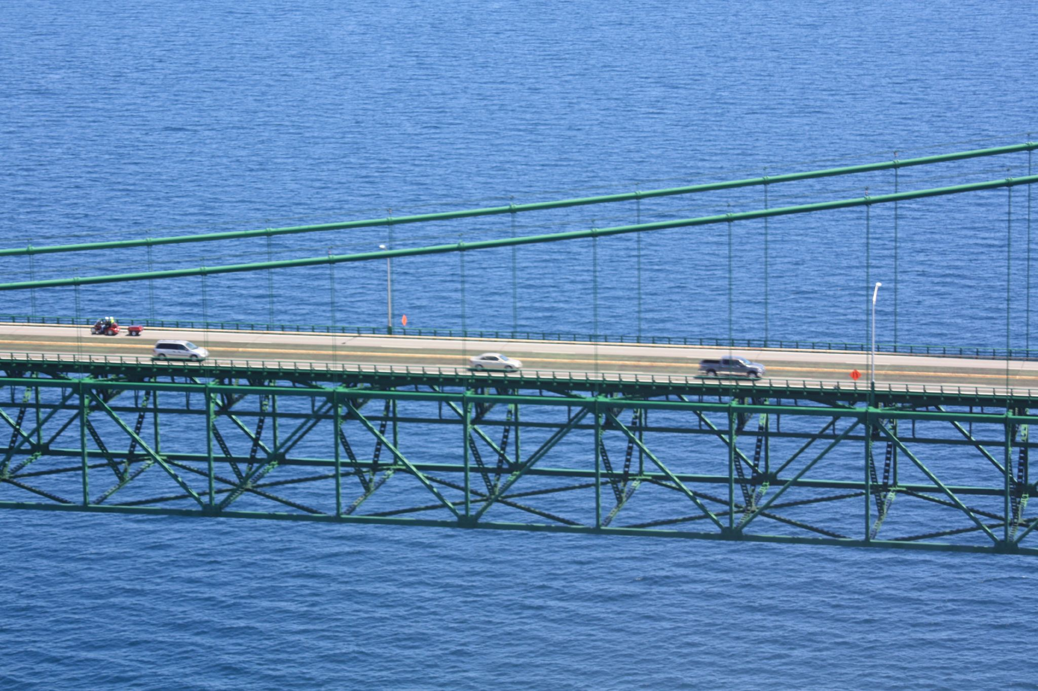 Mackinac Bridge from the air